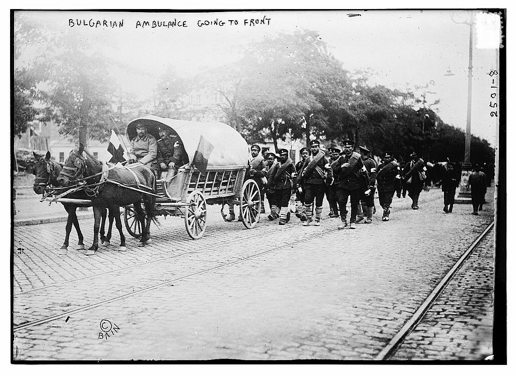 Bain News Service,, publisher. Bulgarian ambulance going to front [between 1910 and 1915] 1 negative : glass ; 5 x 7 in. or smaller. Notes: Title from unverified data provided by the Bain News Service on the negatives or caption cards. Forms part of: George Grantham Bain Collection (Library of Congress). Format: Glass negatives. Repository: Library of Congress, Prints and Photographs Division, Washington, D.C. 20540 USA, General information about the Bain Collection is available at Persistent URL: Call Number: LC-B2- 2501-8